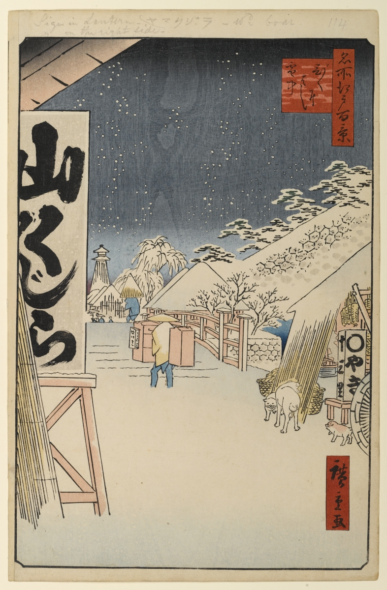 Part of the series One Hundred Famous Views of Edo, no. 114, part 4: Winter.